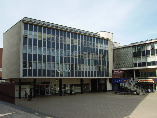 Freedom House, Basildon The 'square' enclosed by this building is one of the focal points of central Basildon. The architecture is typical of the 50s/60s style of most of the town centre, having sprung up in the countryside as part of the 'New Town' movement